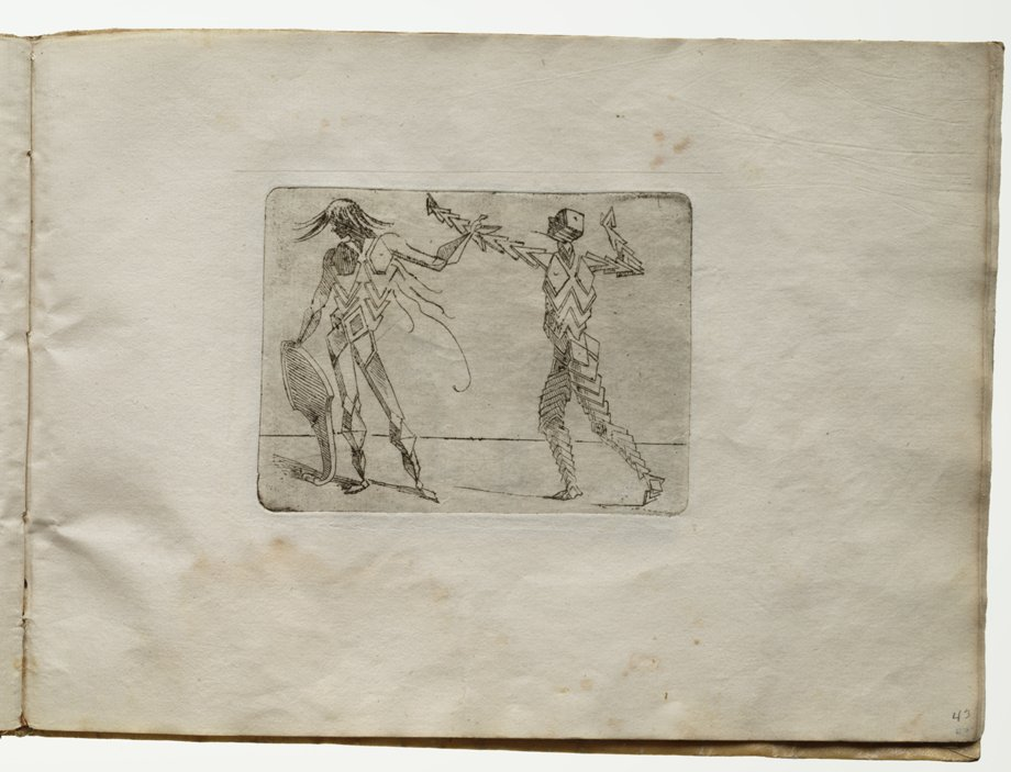 Engrave from Bizzarie di Varie Figure by Giovanni Battista Bracelli